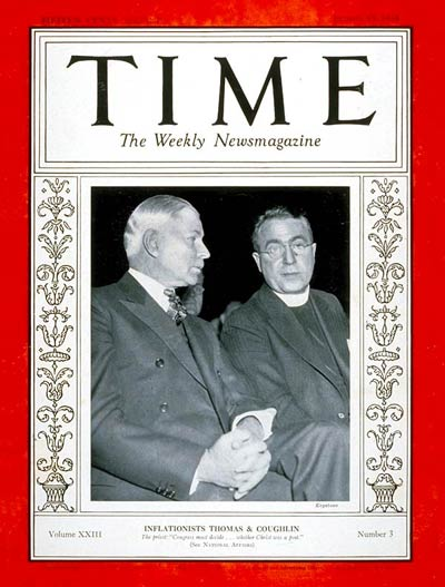 Time magazine, Volume 23 Issue 3, January 15, 1934 The cover shows Senator Elmer Thomas & Father Charles Coughlin.